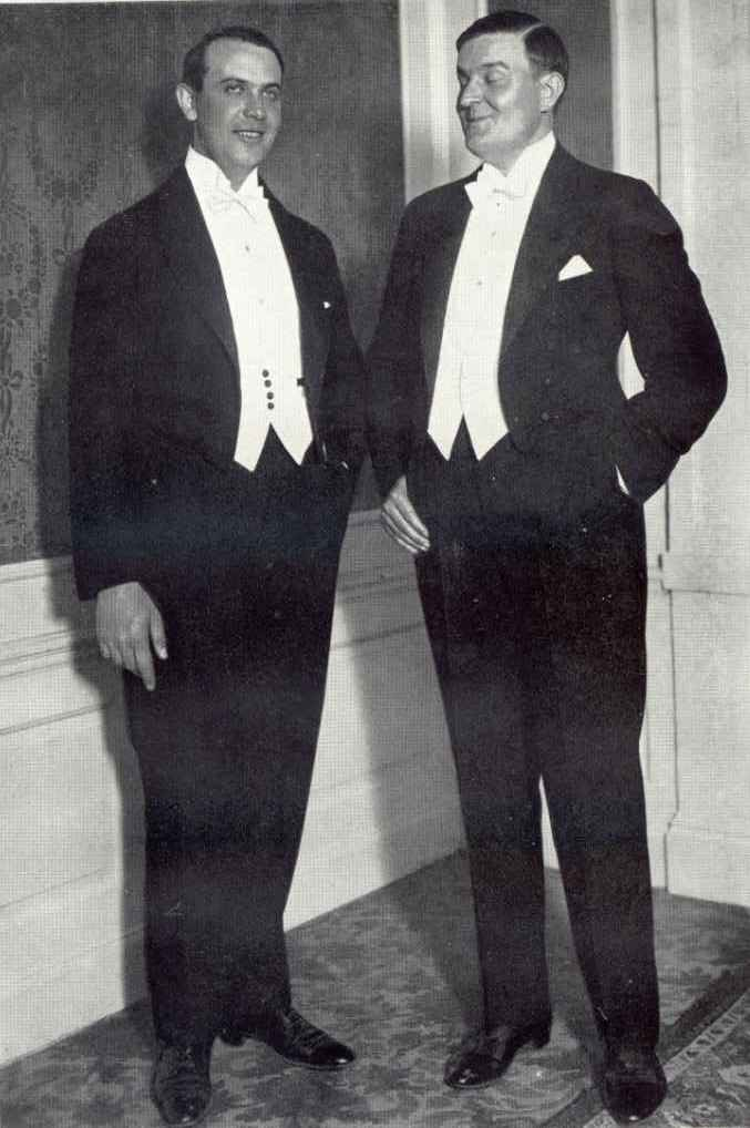 Karl Gerhard (left) and Ernst Rolf 1930